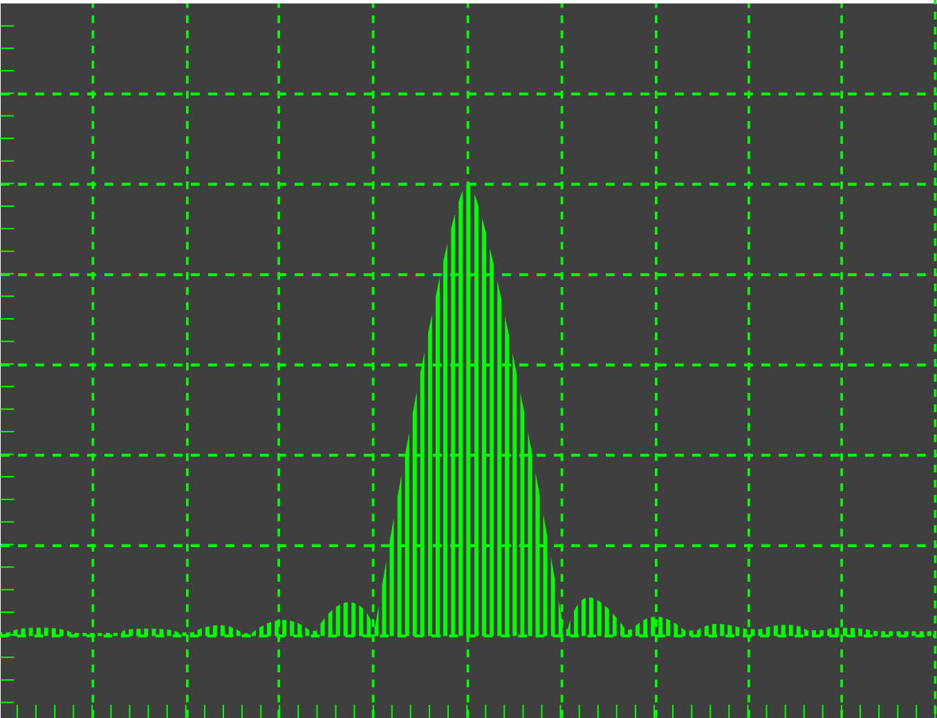 This is the spectrum of a typical radar signal with a cosine pulse profile. It shows the Coarse Spectrum, eg the full bandwidth of the spectrum may be seen as a series of lobes (after TJC - English WP).